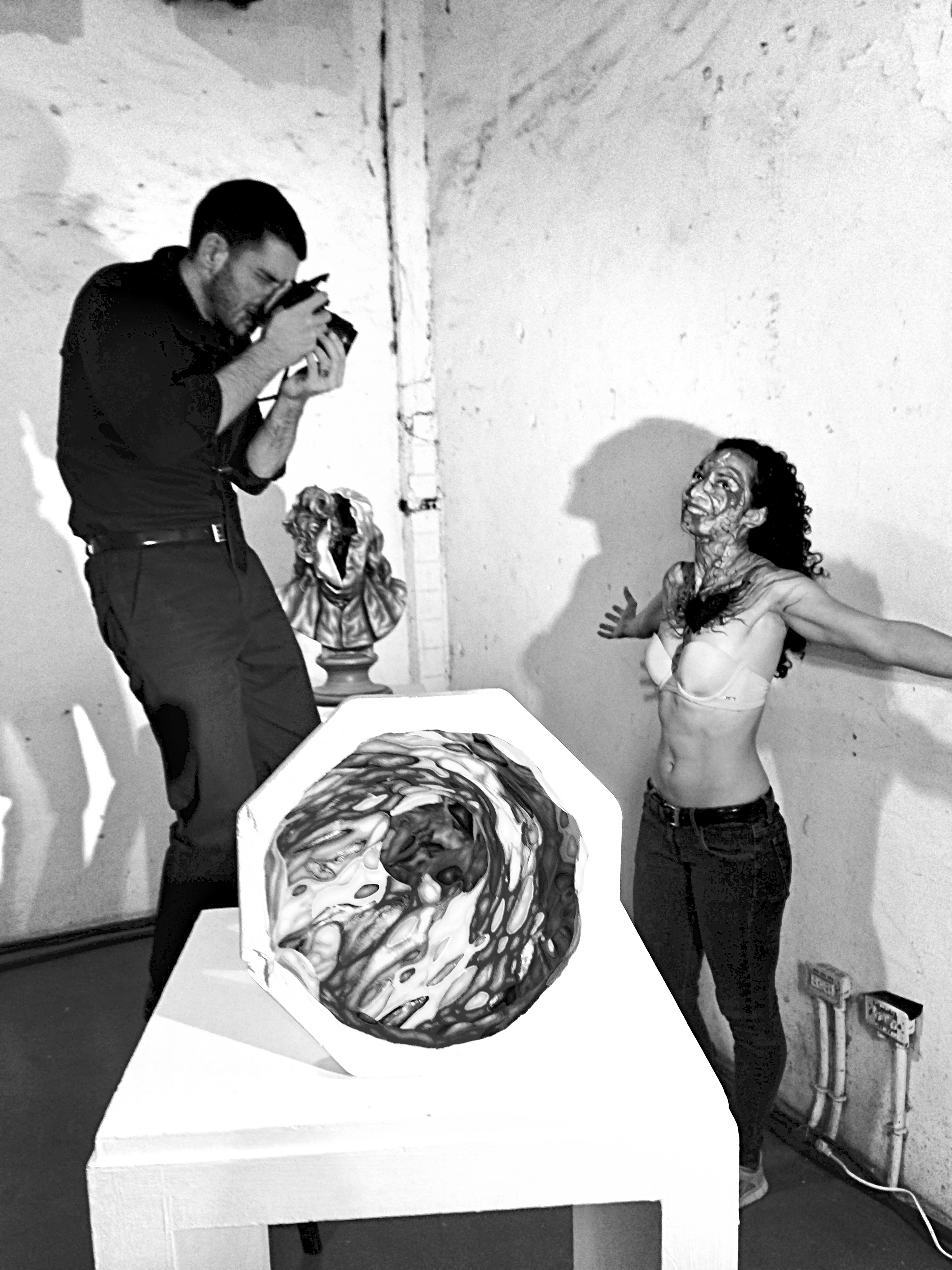 Jean Scuderi at Taipei Free Art Fair 2014